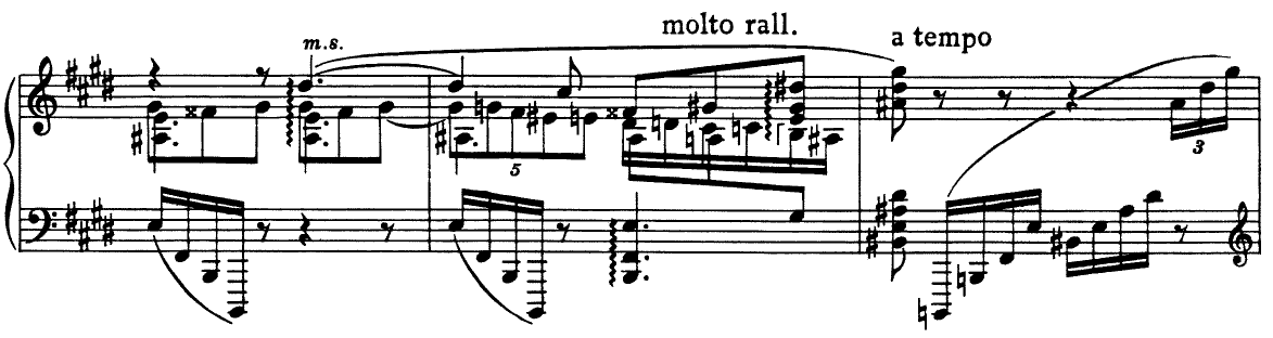 mm.271-273